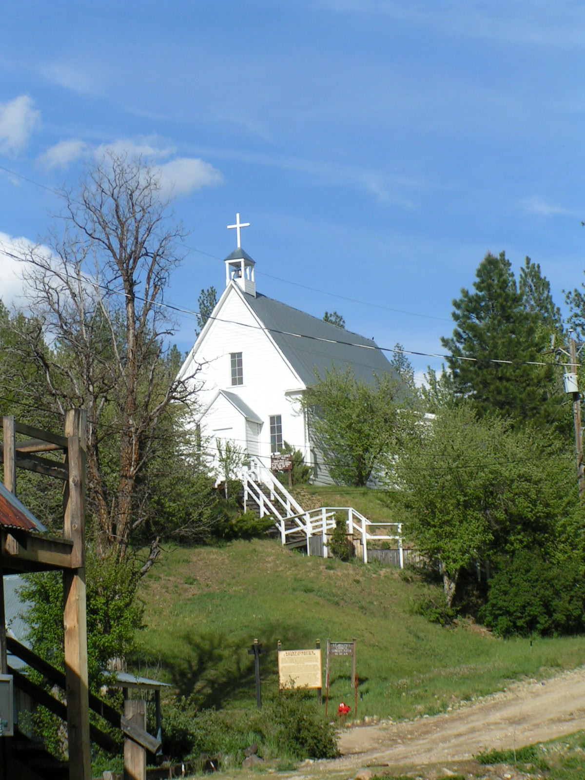 Idaho City wooden church